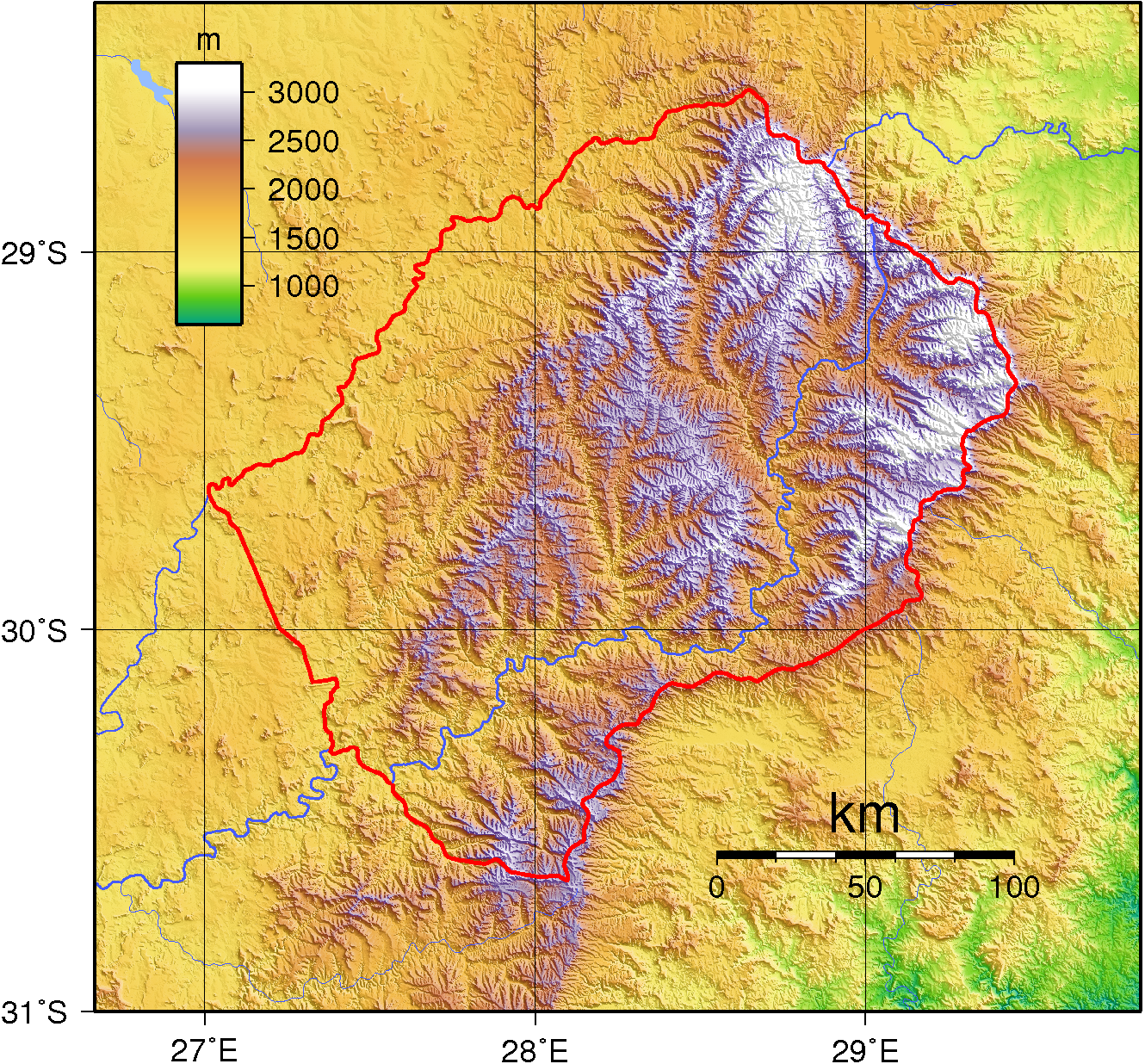 Topographic map of Lesotho. Created with GMT from public domain SRTM data.